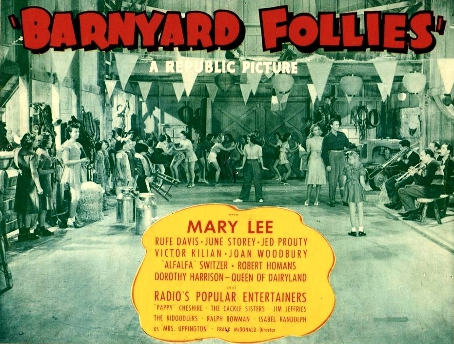 This image is of an original lobby card or poster created by Republic Pictures Corporation for the film Barnyard Follies. It has been cropped to remove the rather broad white border, straightened, and brightness, contrast, and color adjusted to restore clarity and appearance. On the uncropped image there is no copyright mark or date in the border area or elsewhere. However, it would be from when the film was first released on October 6, 1940. The only marks found on the uncropped image are in the lower right border area where there is what appears to be a printer's union logo, which is unreadable, and to the right of which it says "COUNTRY OF ORIGIN U.S.A.".